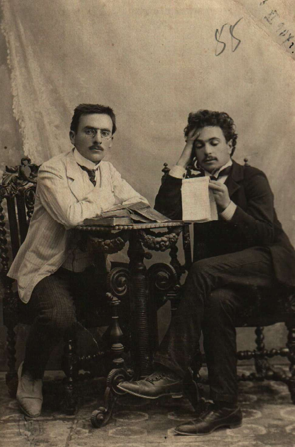 Piligrim and Krum Kardzhiev